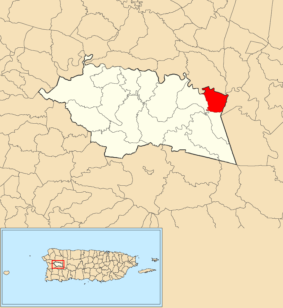 Espino, Las Marías, Puerto Rico locator map